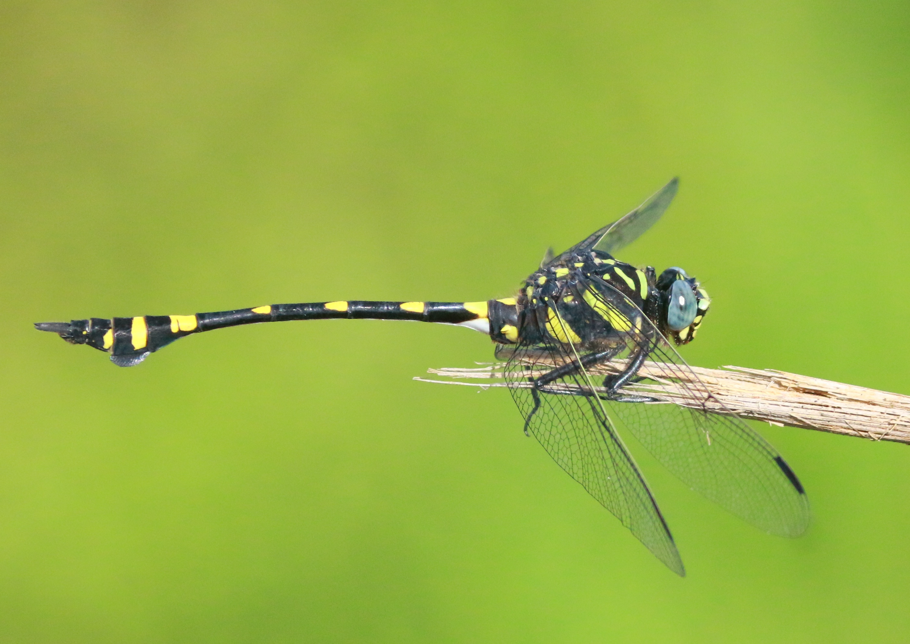 Ictinogomphus rapax,Common club tail